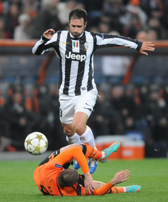 Mirko Vucinic players of Juventus FC